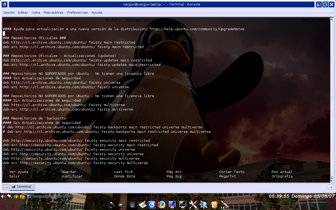 Screen-capture example of the file; /etc/apt/sources.list; in a Linux distribution.